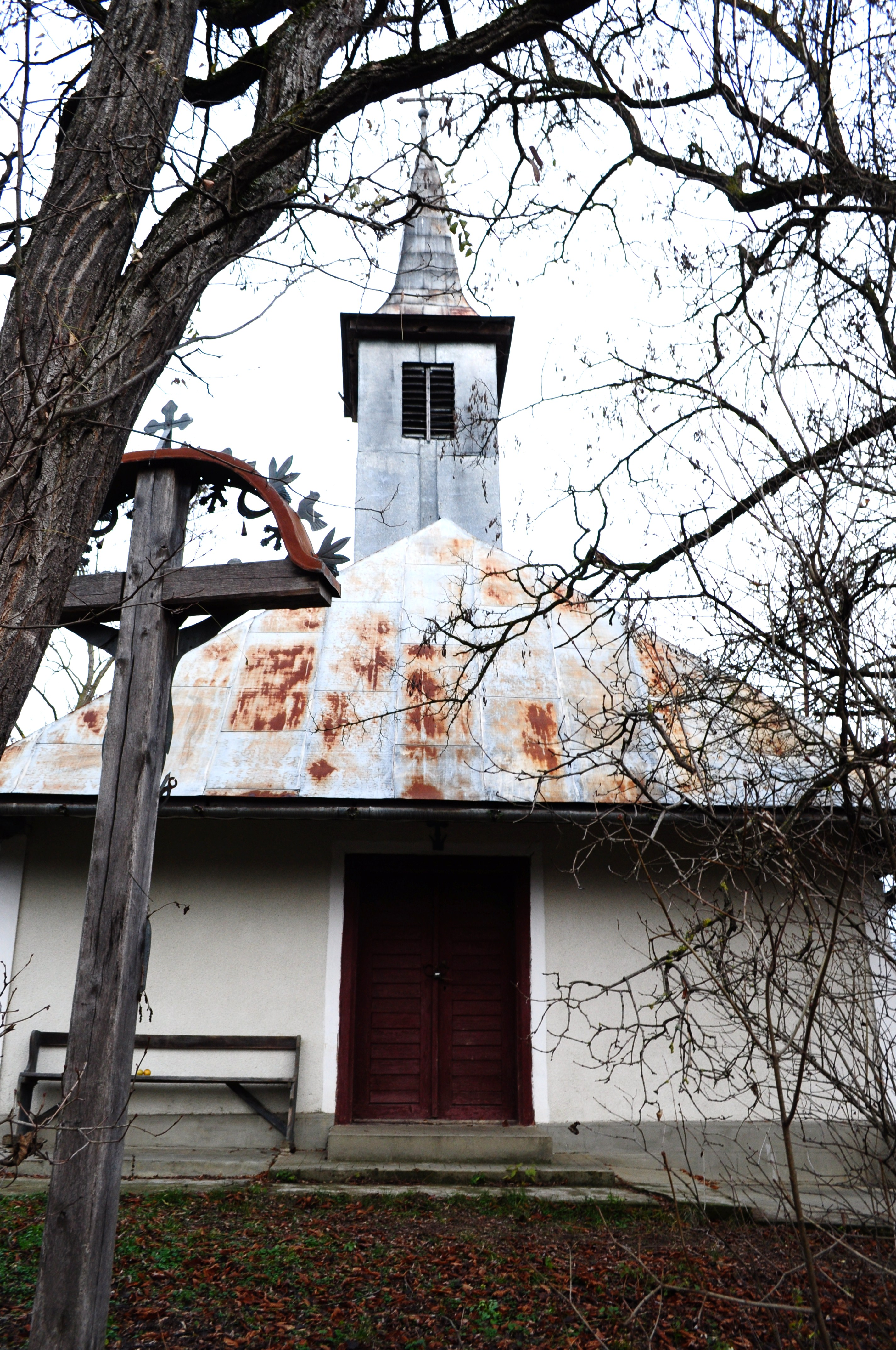 Wooden church in Bărăi, Cluj county, Romania